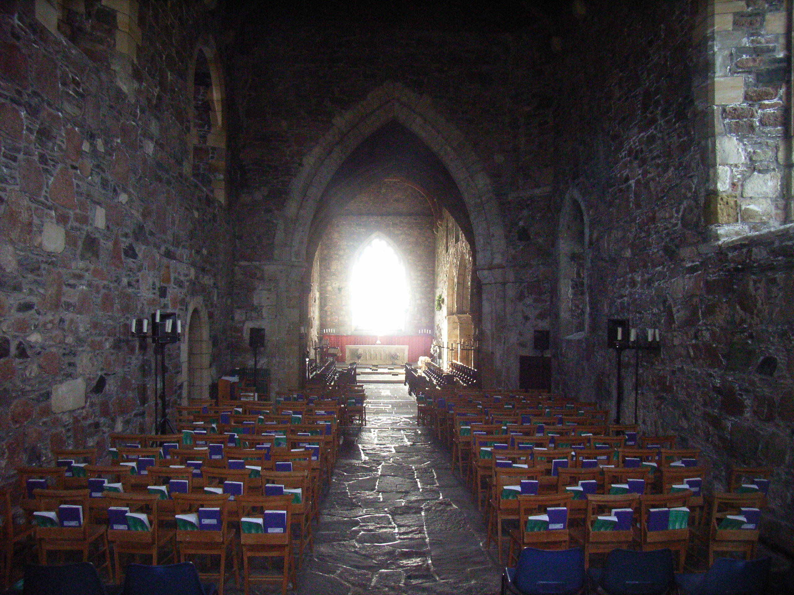 Inside the Iona Abbey Picture taken from the West towards Altar. Abbey in preparation for the Hallowing of new members into the Iona Community summer 2006